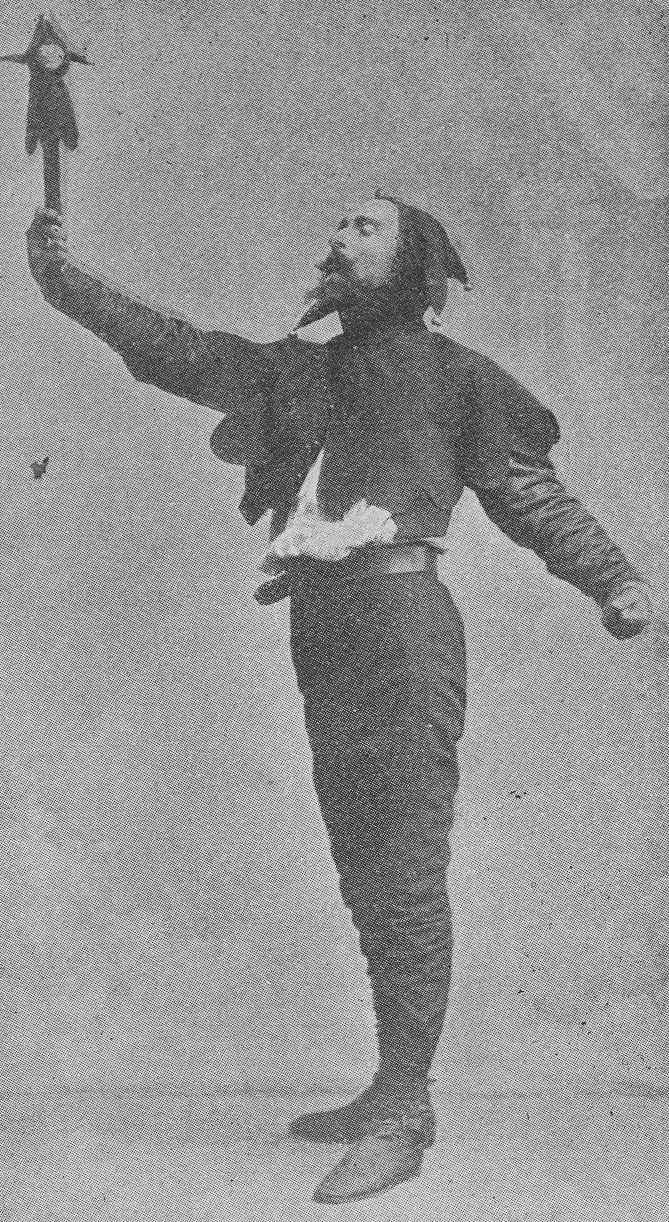 Kazimierz Kamiński as Stańczyk in Wesele of Stanisław Wyspiański (Kraków, 16.03.1901)